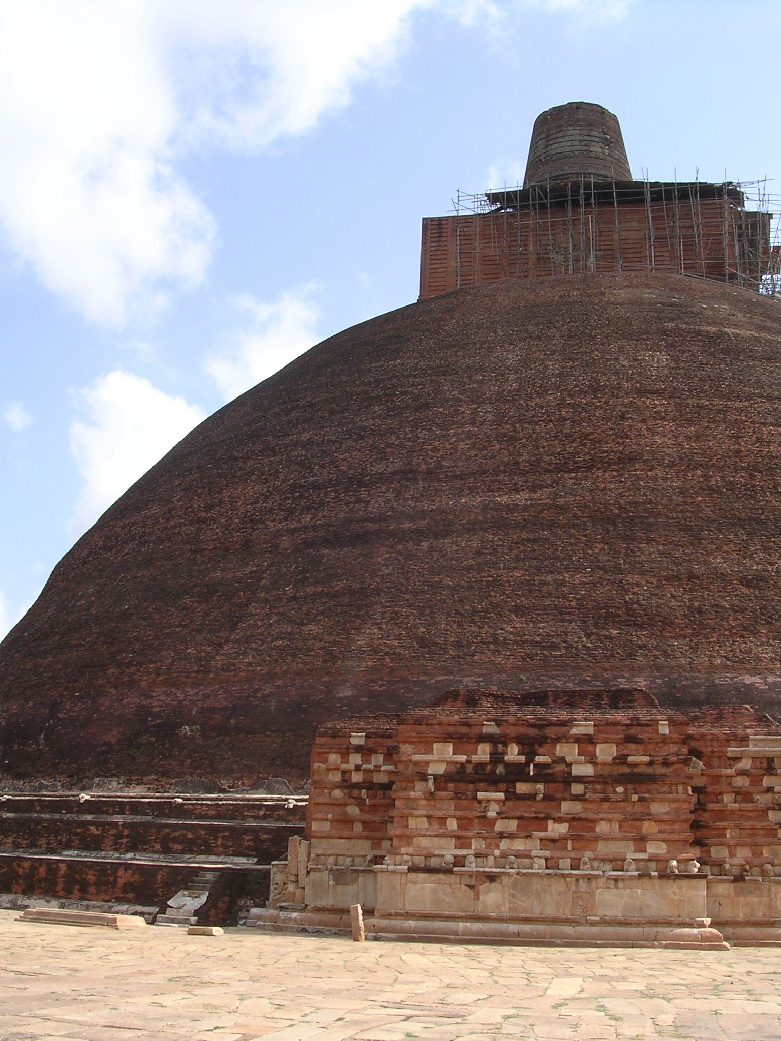 The ancient Jetavanaramaya stupa in Anuradhapura, Sri Lanka is one of the largest brick structures in the world. සිංහල: ජේතවනාරාම දාගැබ, ලෝකයේ ඇති විශාලම ගඩොලින් කරන ලද ගොඩනැගීම් වලින් එකක්.